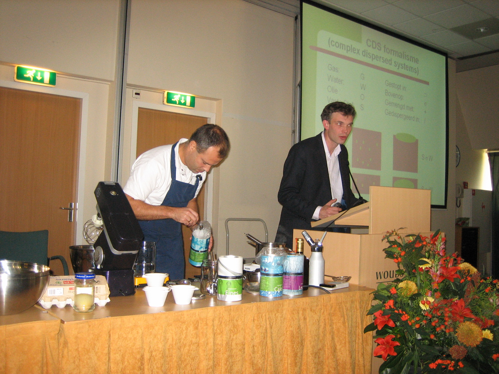 Cook Eke Mariën (left) and chemist Jan Groenewold (right) @ Woudschoten conference of chemistry education, 4 november 2006, Zeist, Netherlands